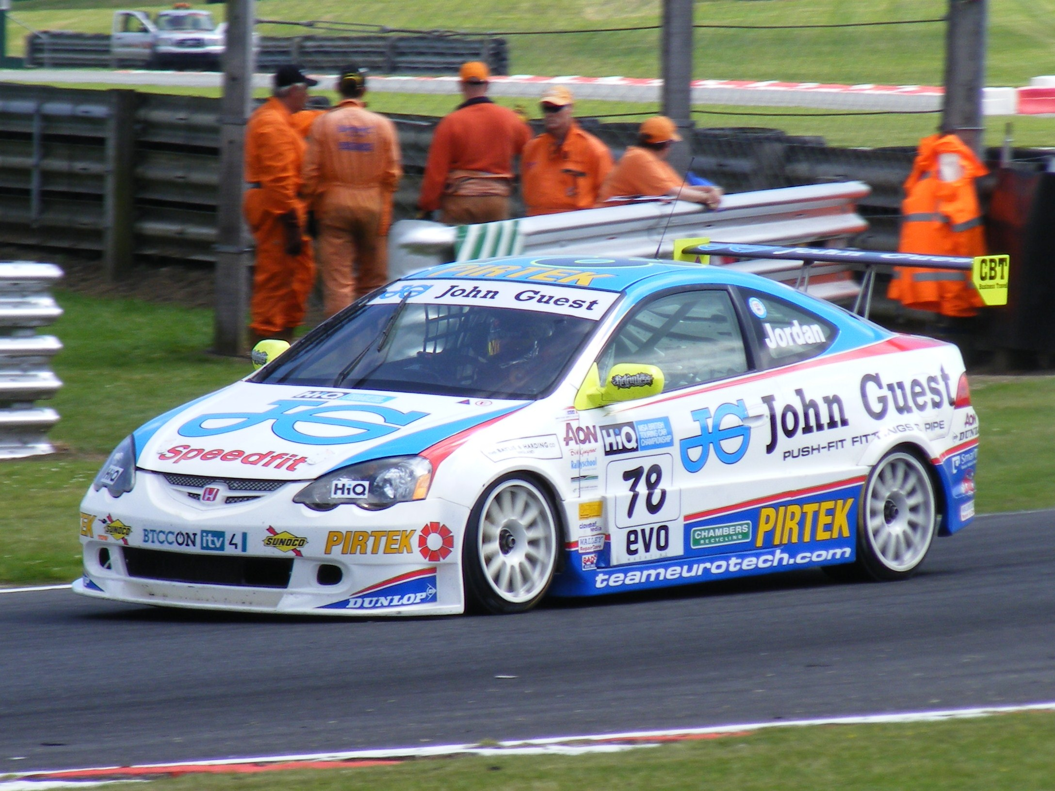 Andrew Jordan (Honda Integra) at Oulton Park (2008 BTCC season).